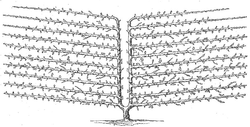 Double trunked upward espalier, shown used with an Apple tree.